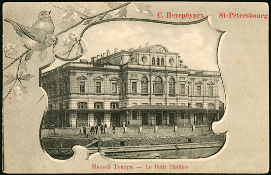 Saint Petersburg (Russia), Fontanka. Small Theater.